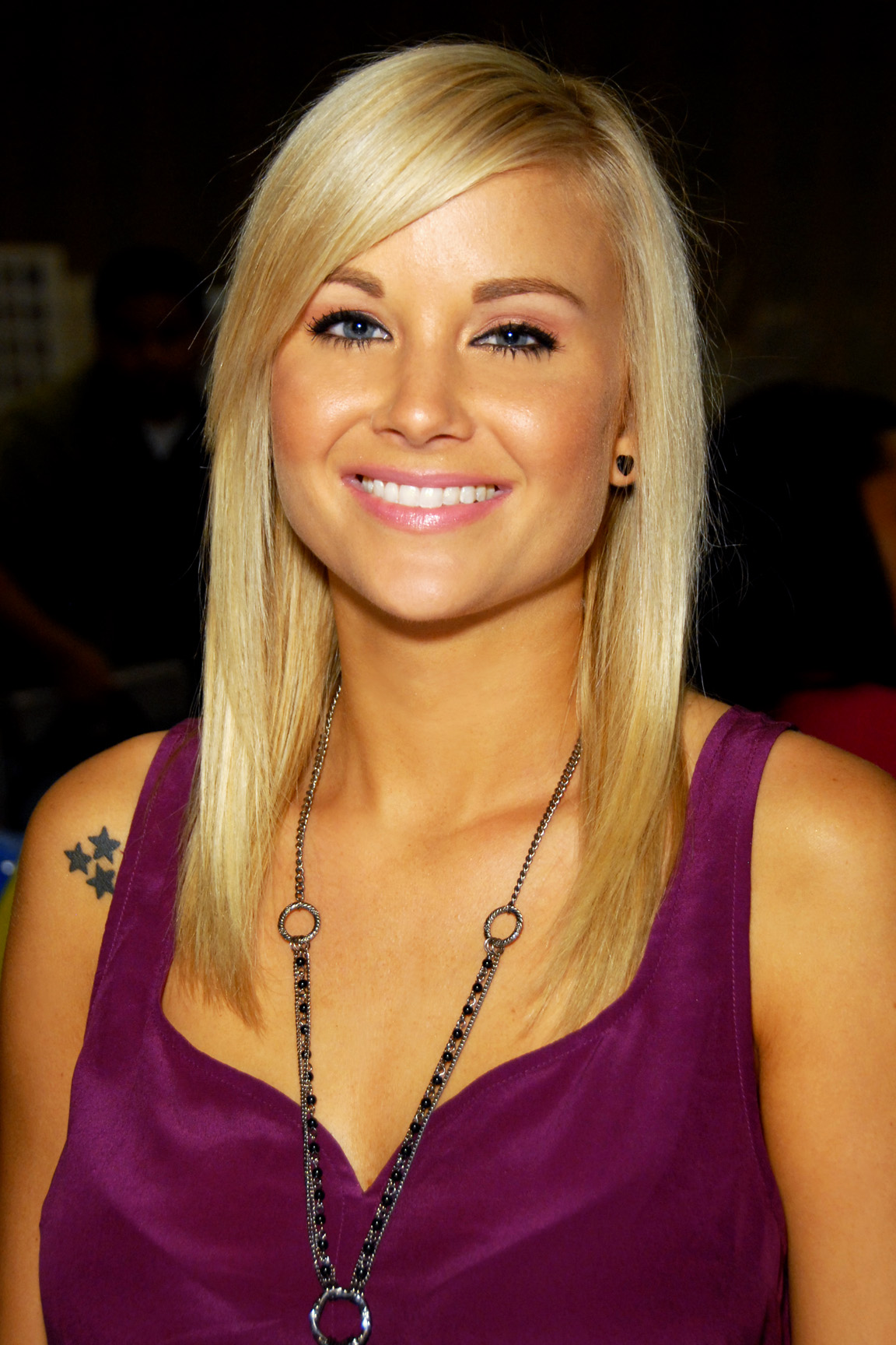 Kara Monaco attending Glamourcon #50, Long Beach, CA on November 13, 2010 - Photo by Glenn Francis of